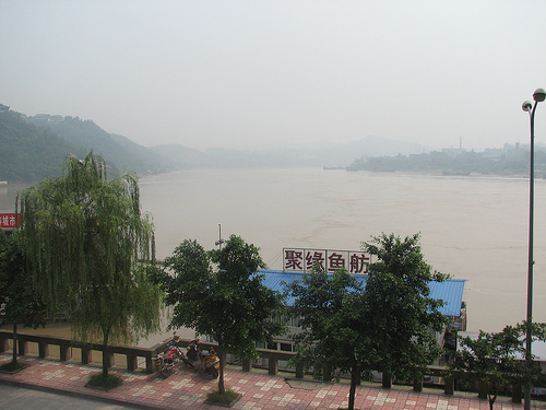 Yibin confluence in Sichuan. The Yangtze River (Chang Jiang) is formed at Yibin by the confluence of the Min River and the Jinsha River (Jinsha Jiang).